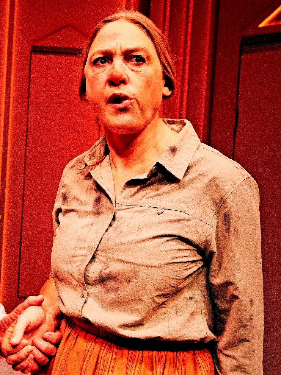 Mette Horn in the Copenhagen theater Folketeatret's production of the play "Den politiske kandestøber" by Ludvig Holberg.